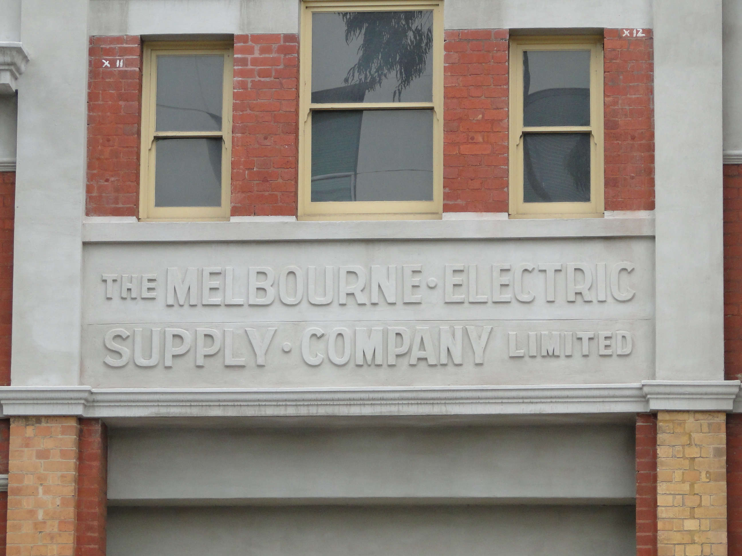 The sign above the entrance to the old Geelong Tram Depot in Brougham Street, Geelong, Victoria, Australia. It has the name of the company that first operated the trams, the Melbourne Electric Supply Company.